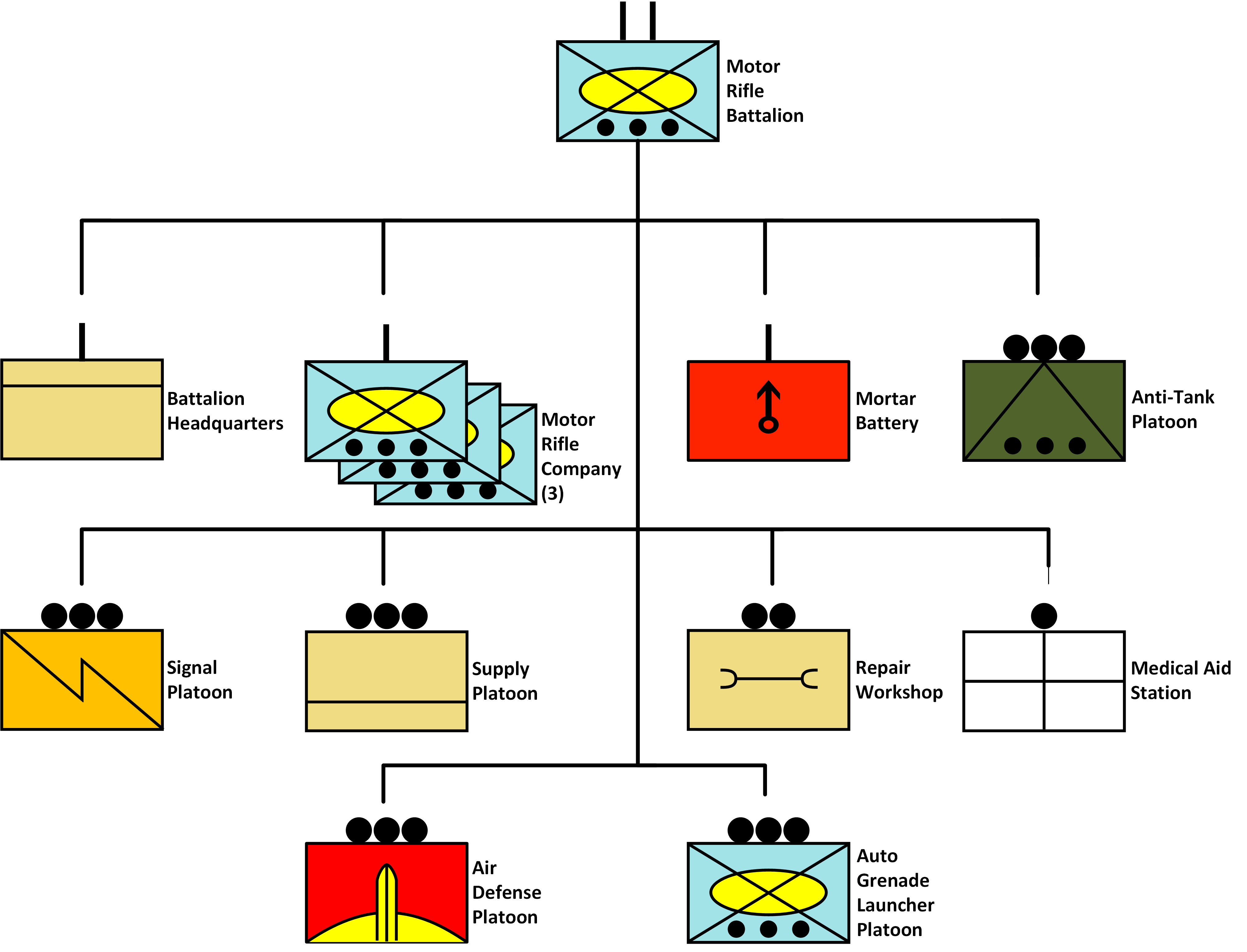 Organization of Soviet Motor Rifle Battalion late 1980s per FM 100-2-3